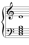 Ninth chord Created with Sibelius